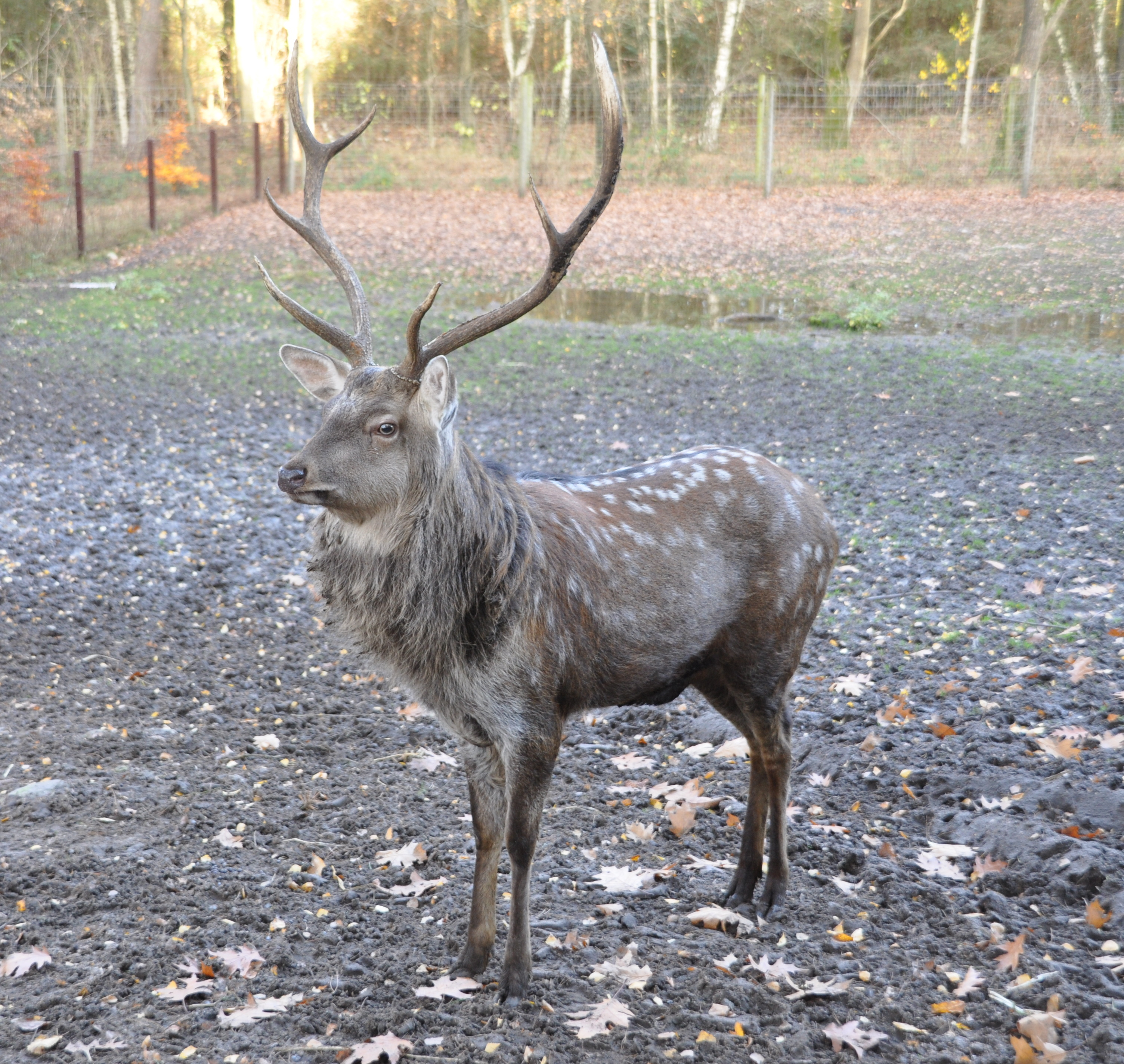 Dybowski's Sika Deer (Cervus nippon hortulorum) in the Lüneburg Heath wildlife park, Germany.